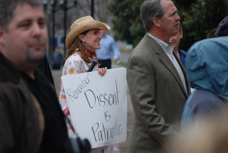 Scene from the Nashville Tea Party, February 27, 2009, featuring a woman wearing a cowboy hat holding a hand-written sign reading “Remember: Dissent is Patriotic”